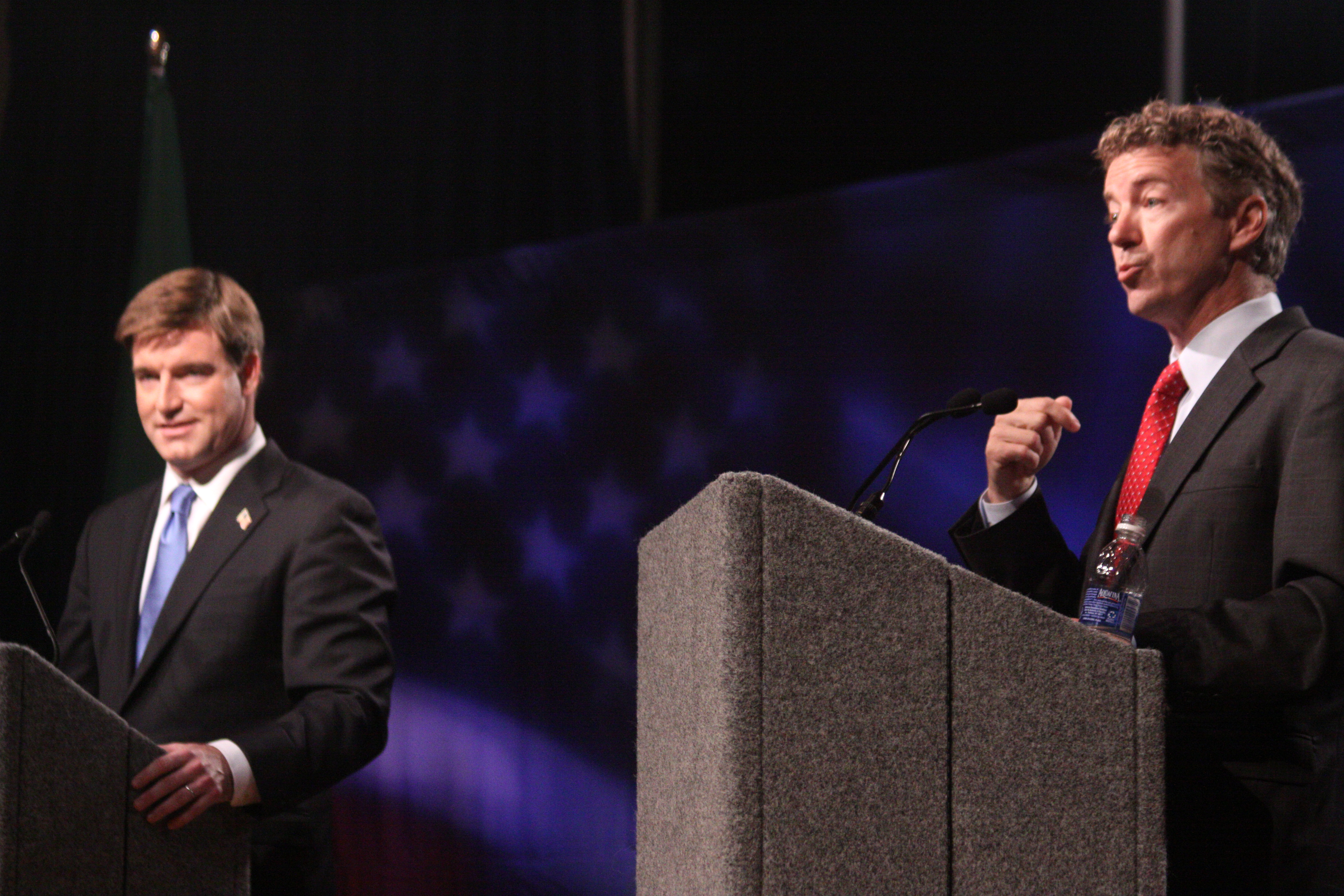 United States Senate candidate Rand Paul and United States Senate candidate Jack Conway at a debate at Northern Kentucky University in Covington, Kentucky. Unauthorized use by any candidate or candidate's committee is strictly prohibited without approval.